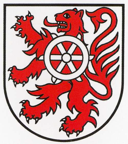 Coat of Arms of Hagen, Part of Braunschweig